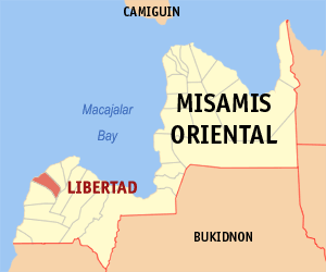 Map of the Misamis Oriental showing the location of Libertad